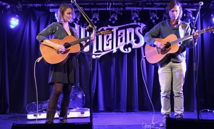 Joan Shelley and Nathan Salsburg perform in Whelan's, Dublin, 2017